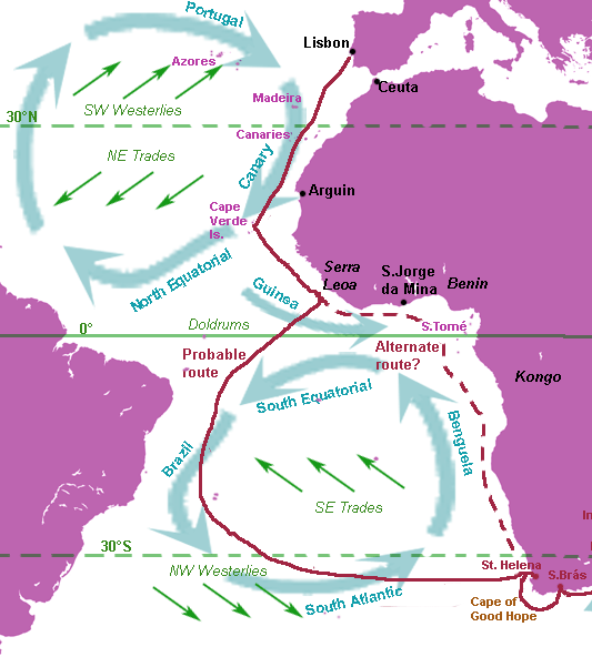 Depiction of the probable Atlantic route taken by Vasco da Gama's armada in 1497, including an approximate depiction of the Atlantic sea currents (blue) and wind latitudes (green). Based on descriptions in various sources, notably the work of Gago Coutinho (1951-52).